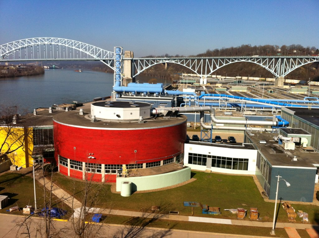 ALCOSAN is located along the Ohio River under the McKees Rocks Bridge. The Wet Well, the red building is where all of the wastewater enters the plant.